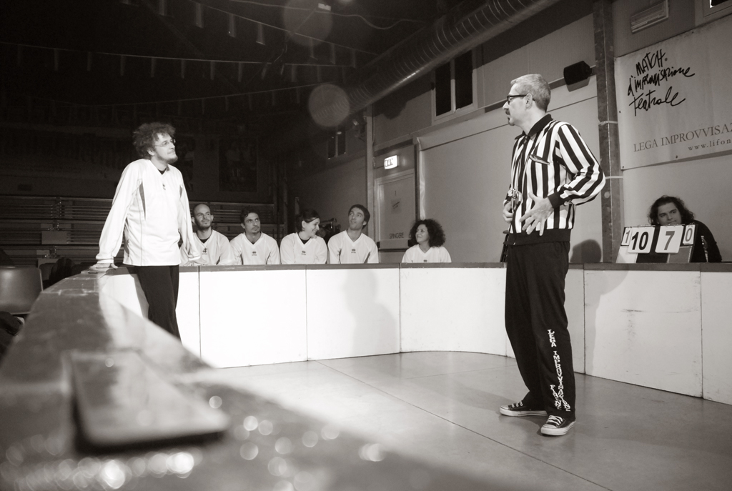 Theatresports, Florence, Italy.